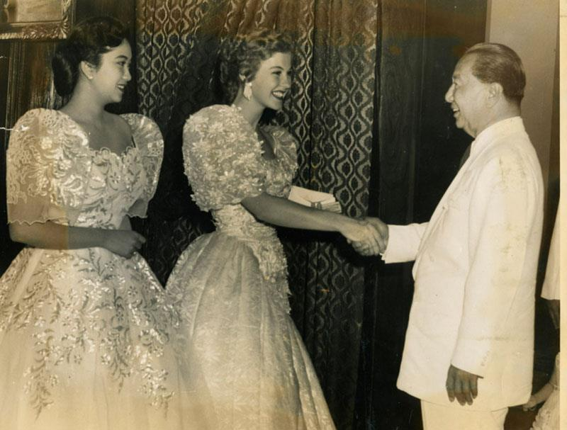 One of the many distinguished guests of Malacañan Palace was Armi Helena Kuusela, the first woman crowned Miss Universe, who paid a courtesy call on President Elpidio Quirino in 1953. She was invited to be a judge in the Miss Philippines pageant. From left to right: Miss Philippines Teresita Villareal, Miss Kuusela and President Quirino.